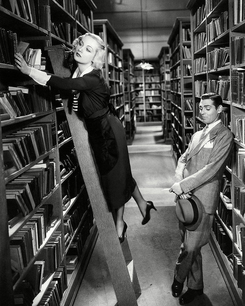 Publicity photo of Carole Lombard & Clark Gable taken for film No Man of Her Own (1932).